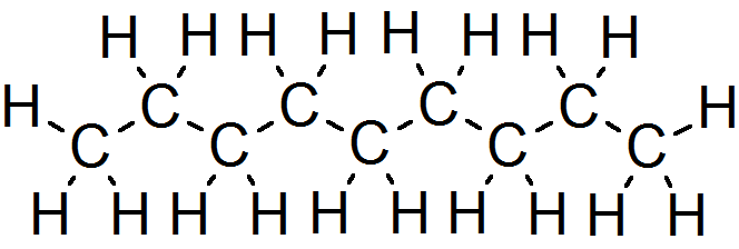 Structure of nonane with angled bonds, with all atoms explicitly shown. Part of a series drawn in SymyxDraw with ACS settings.